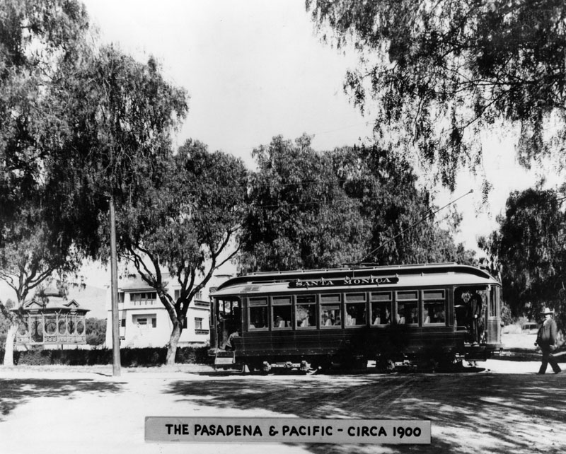 Pasadena and Pacific Street Car 1900. - Pacific Electric Railway Pasadena and Pacific car labelled "Santa Monica,” seen crossing a street.